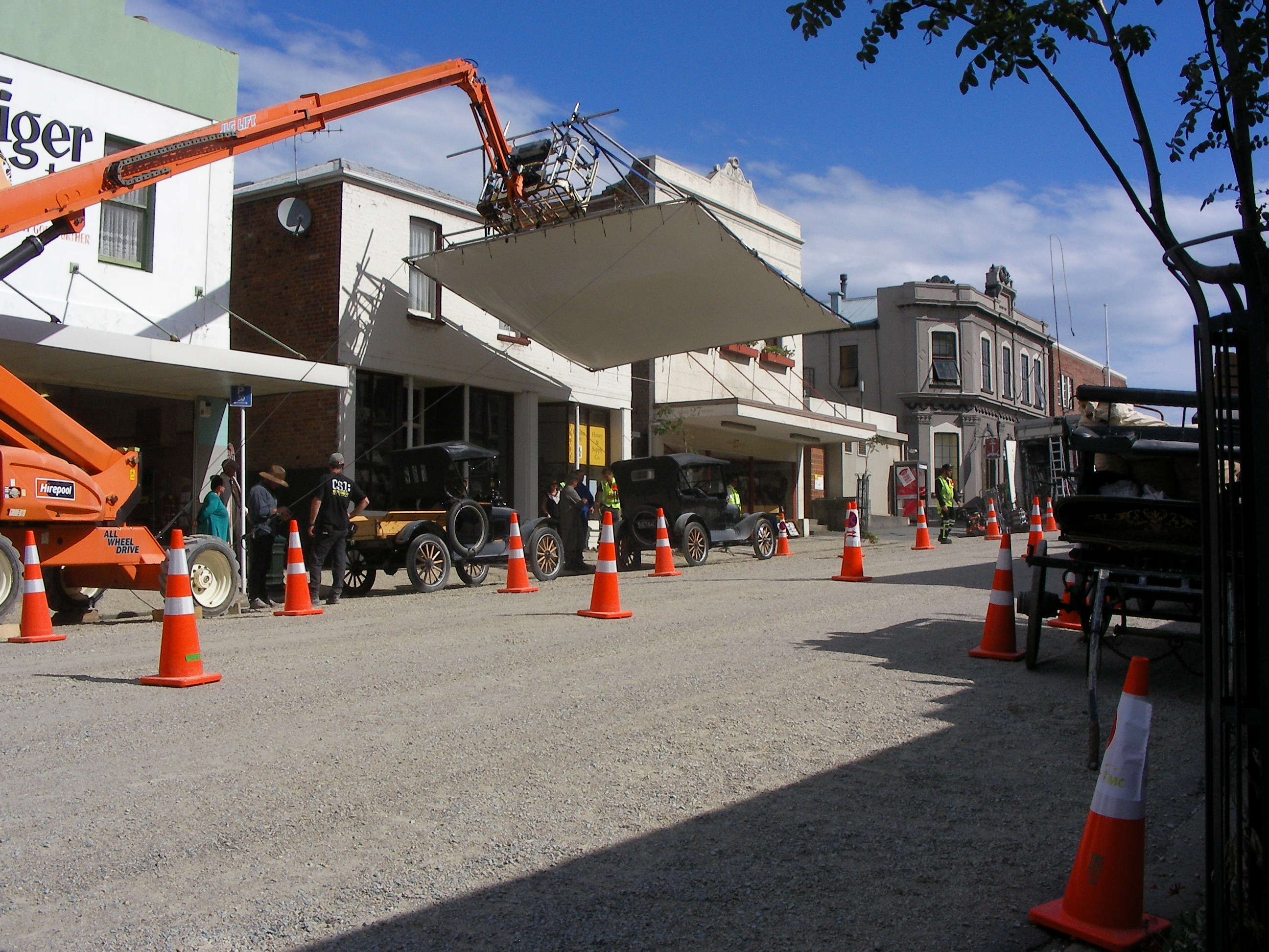 The Light Between Oceans (film) location, George Street, Port Chalmers, New Zealand The street has been modified for use in the film.